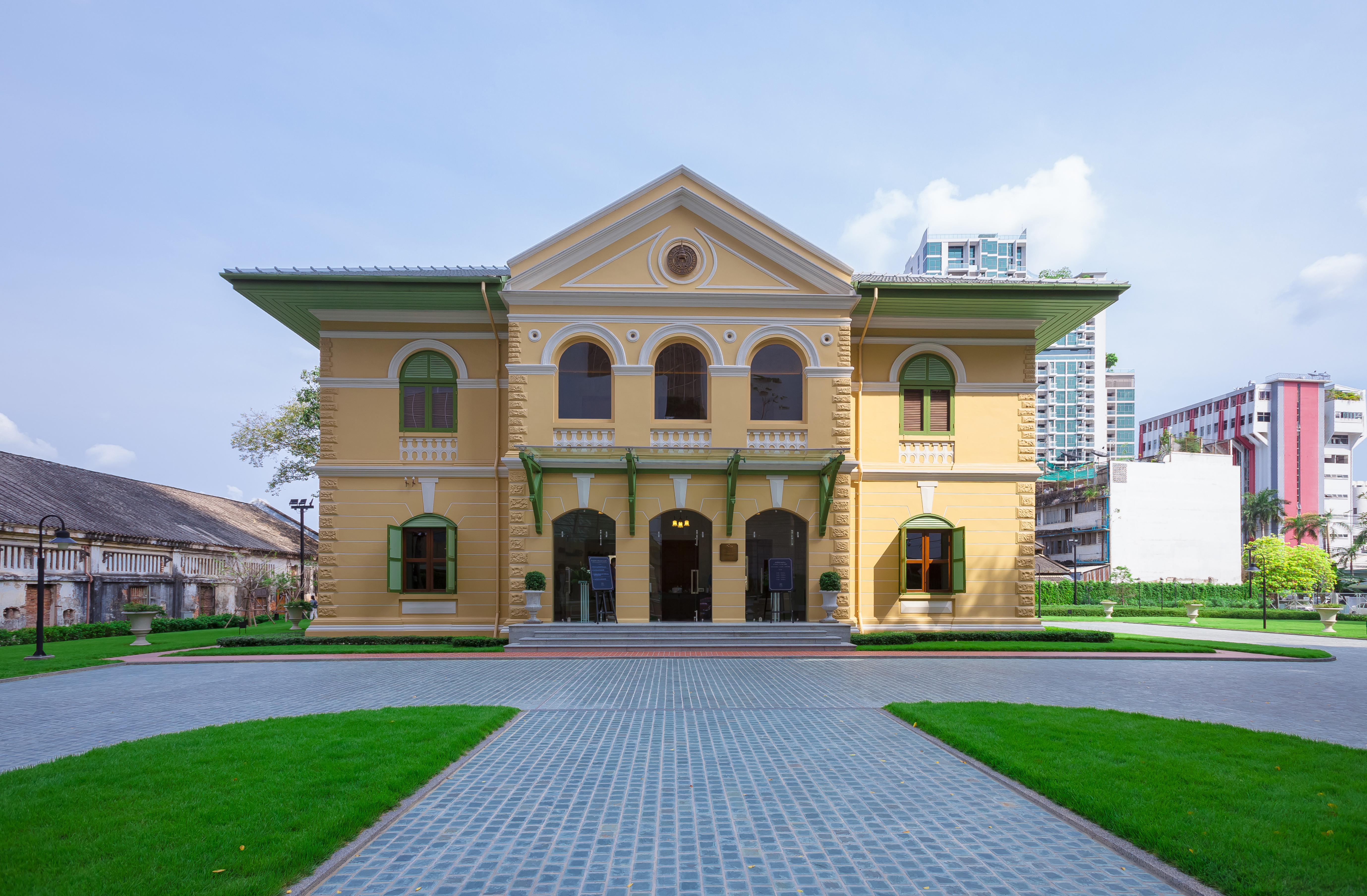 House No.1 (Soi Captain Bush) (Charoenkrung 30) after renovated located at Charoenkrung Road, Bang Rak District, Bangkok.